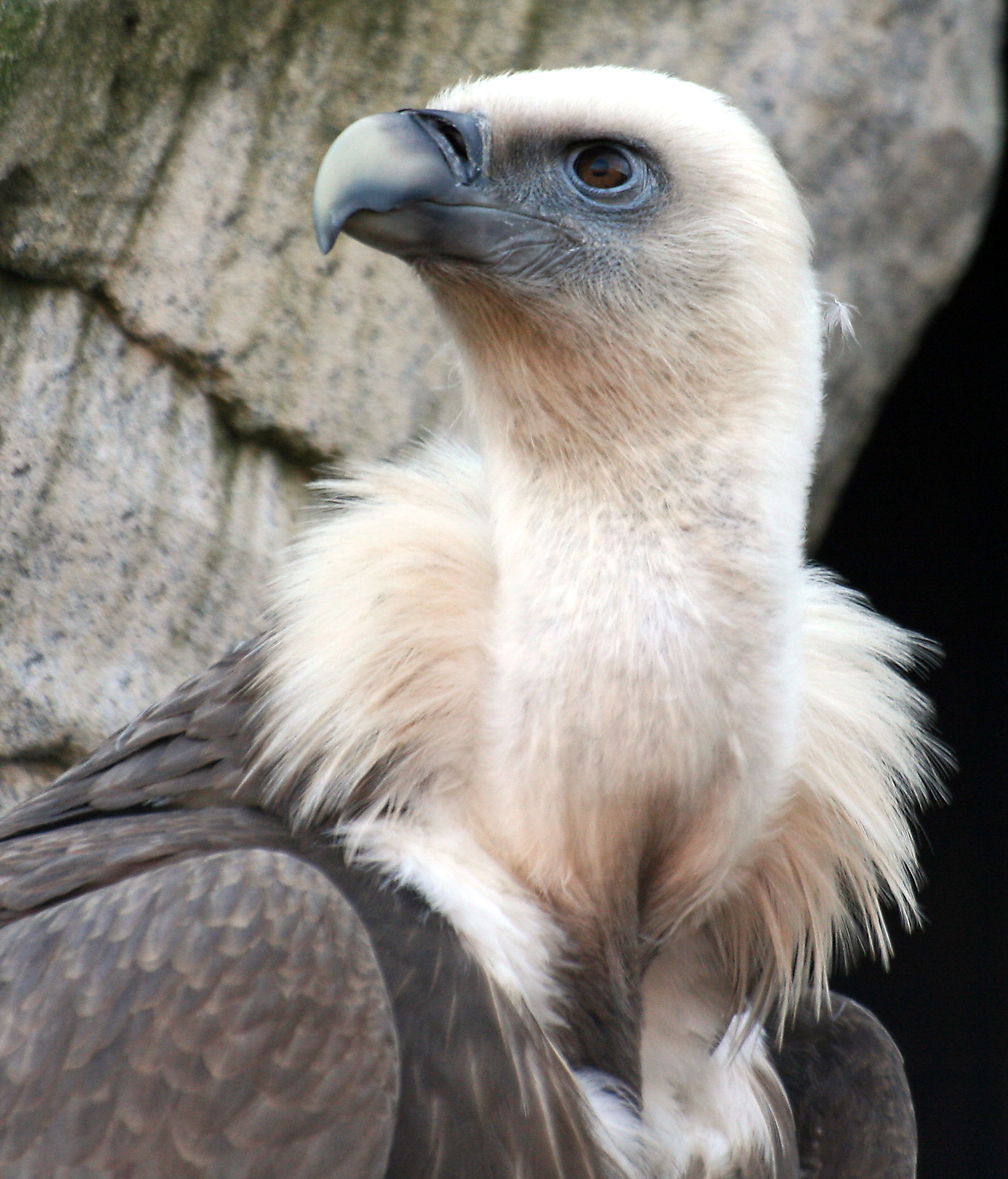 Vulture - Colchester Zoo, Colchester, Essex, England - Monday February 11th 2008. Vultures are scavenging birds, feeding mostly on the carcasses of dead animals. Vultures are found in every continent except Antarctica and in Oceania. A particular characteristic of many vultures is a bald head, devoid of feathers. This is likely because a feathered head would become spattered with blood and other fluids, and thus be difficult to keep clean. A group of vultures is occasionally called a venue, and when circling in the air a group of vultures is called a kettle. The word Geier (taken from the German language) does not have a precise meaning in ornithology, and it is occasionally used to refer to a vulture in English, as in some poetry.